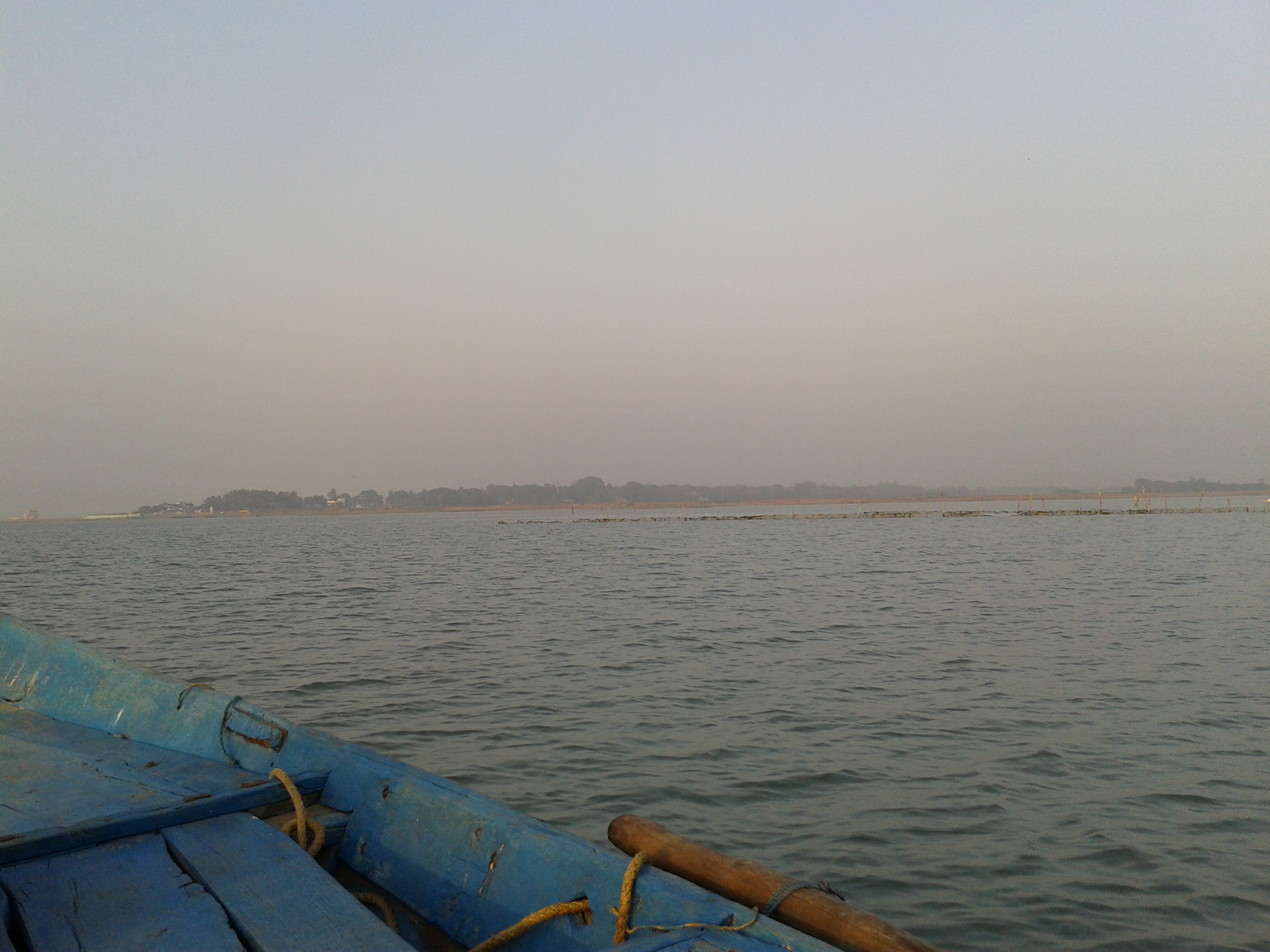 Satpada, Chilika Lake, India